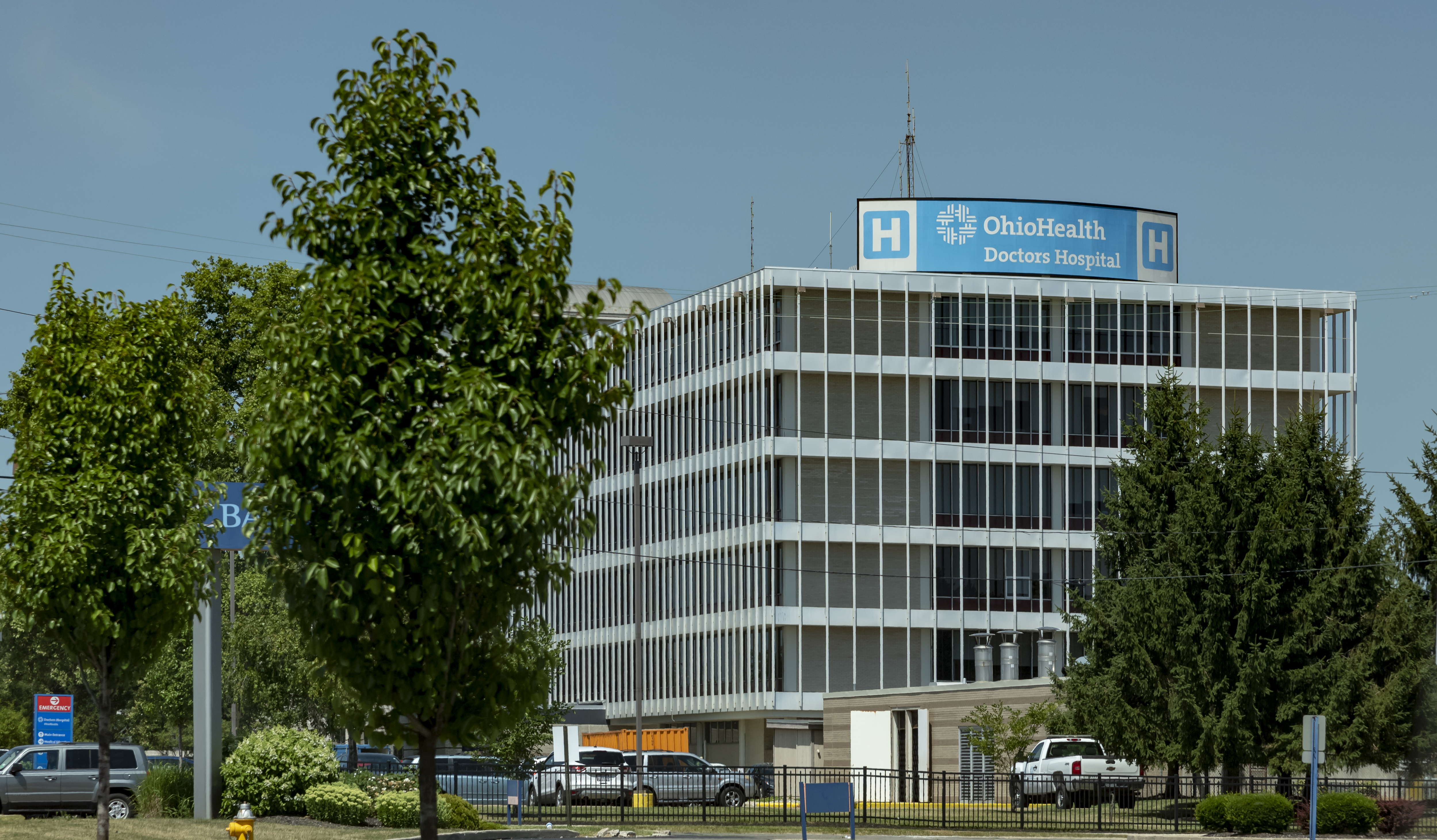 Doctors Hospital, seen from the southeast, located on Broad Street (U.S. Route 40) on the edge of Lincoln Village in Prairie Township, Franklin County, Ohio.